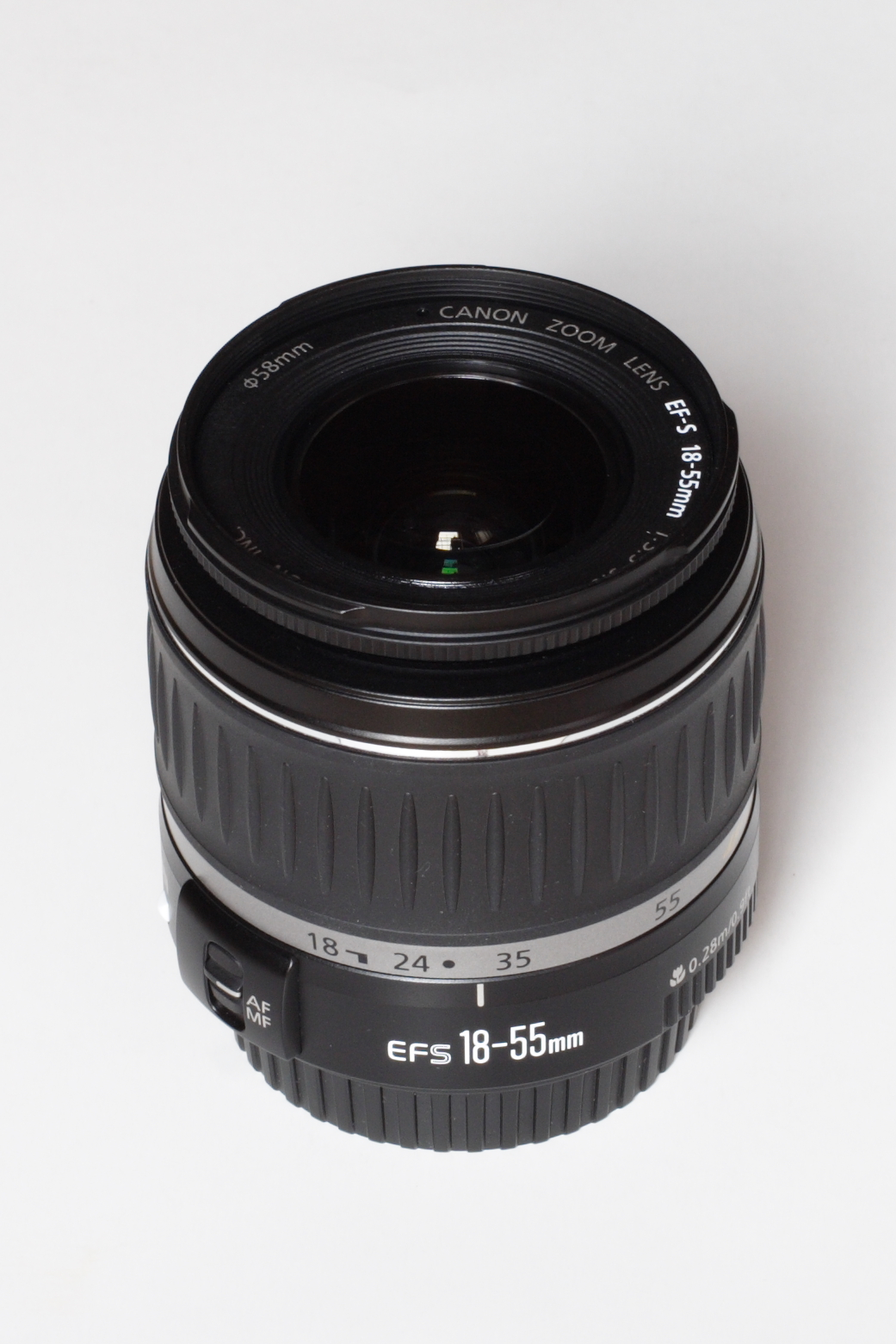 Canon EF-S18-55mmF3.5-5.6 II USM